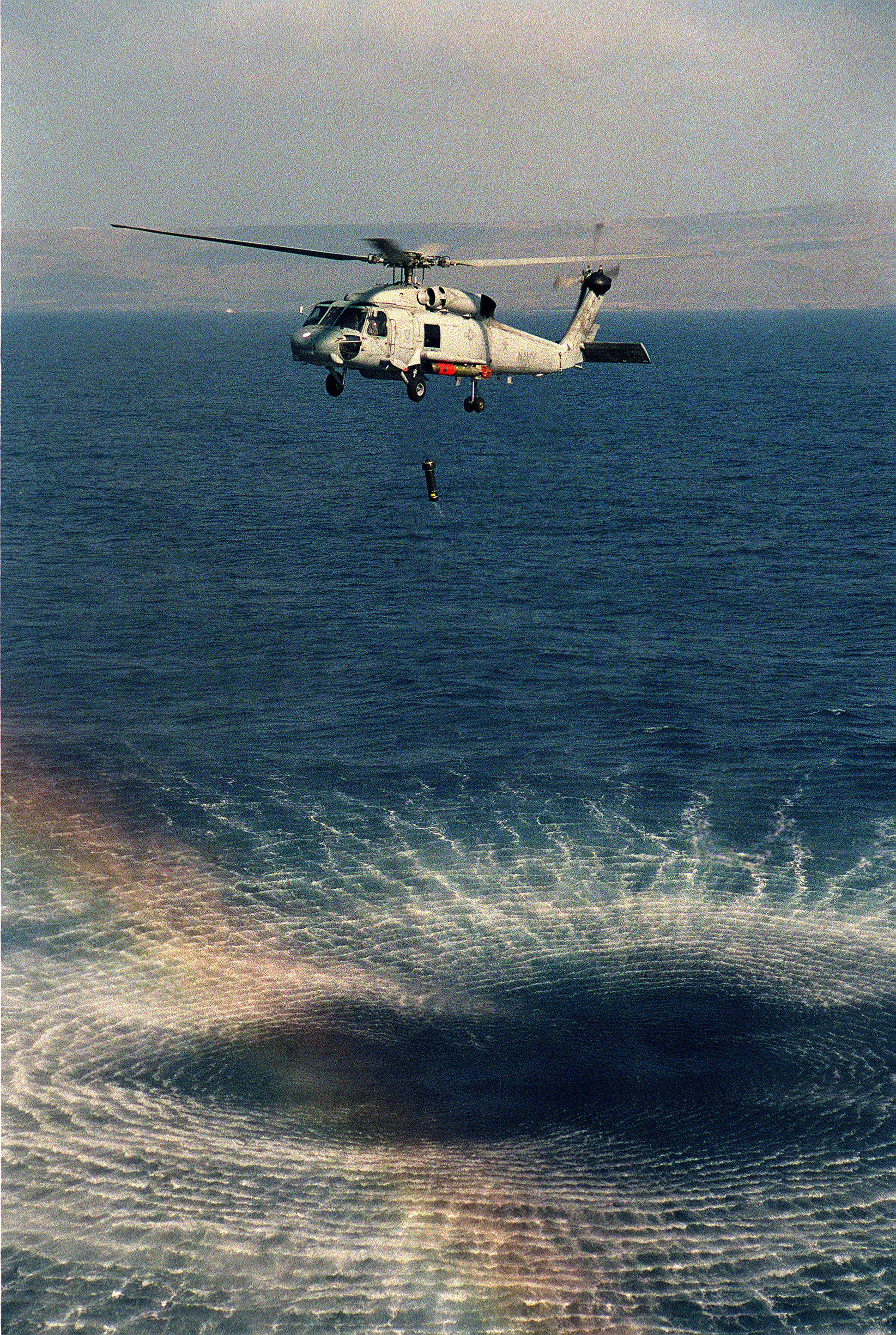 US Navy (USN) SH-60F SEAHAWK, with the Helicopter Anti-submarine Squadron 6 (HELASRON HS-6), Indians, Naval Air Station North Island (NASNI), California, lowers a Bendix AN/AQS-13F Dipping SONAR into the ocean.